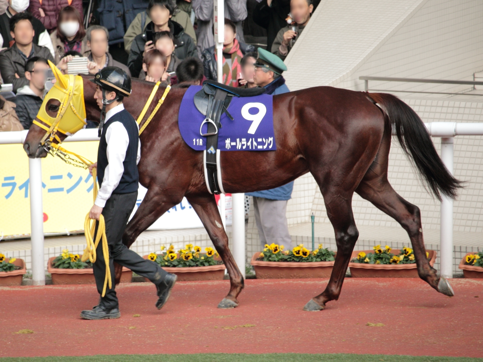 Ball Lightning (Racehorse of Japan).